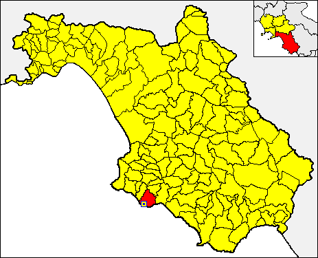 Locator map of Acciaroli (yellow and blue dot) within the Province of Salerno (shown in yellow) and Pollica municipality (shown in red)